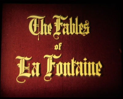 Still taken from the 1950ties children TV program "The Fables of La Fontaine"